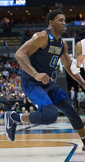 Cameron Oliver of the Nevada Wolf Pack in March 2017